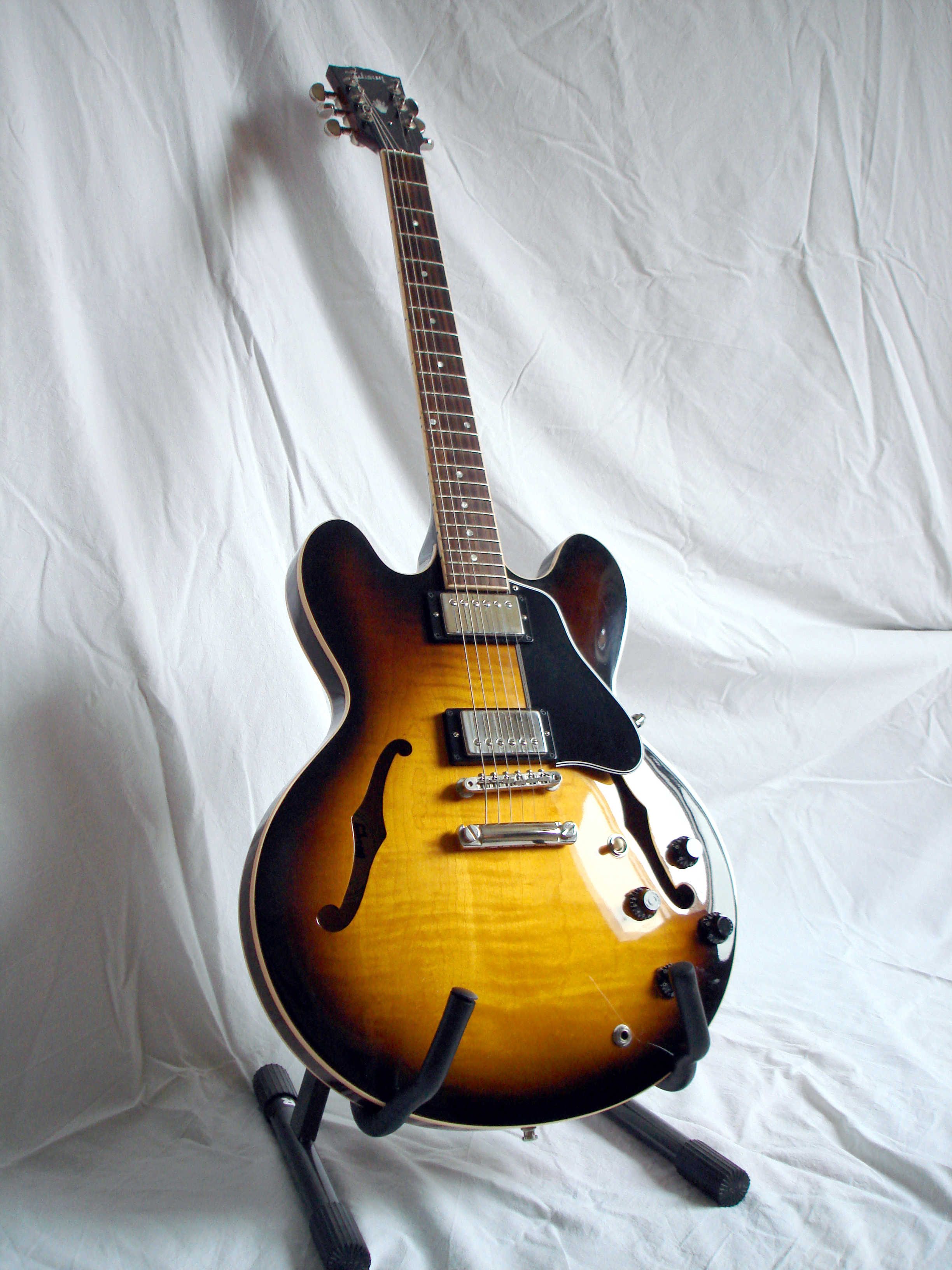 Gibson ES-335 guitar, sunburst finish